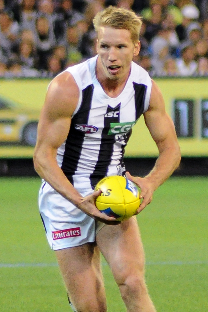 Josh Smith during the AFL round two match between Richmond and Collingwood on 30 March 2017 at the Melbourne Cricket Ground in Melbourne, Victoria.